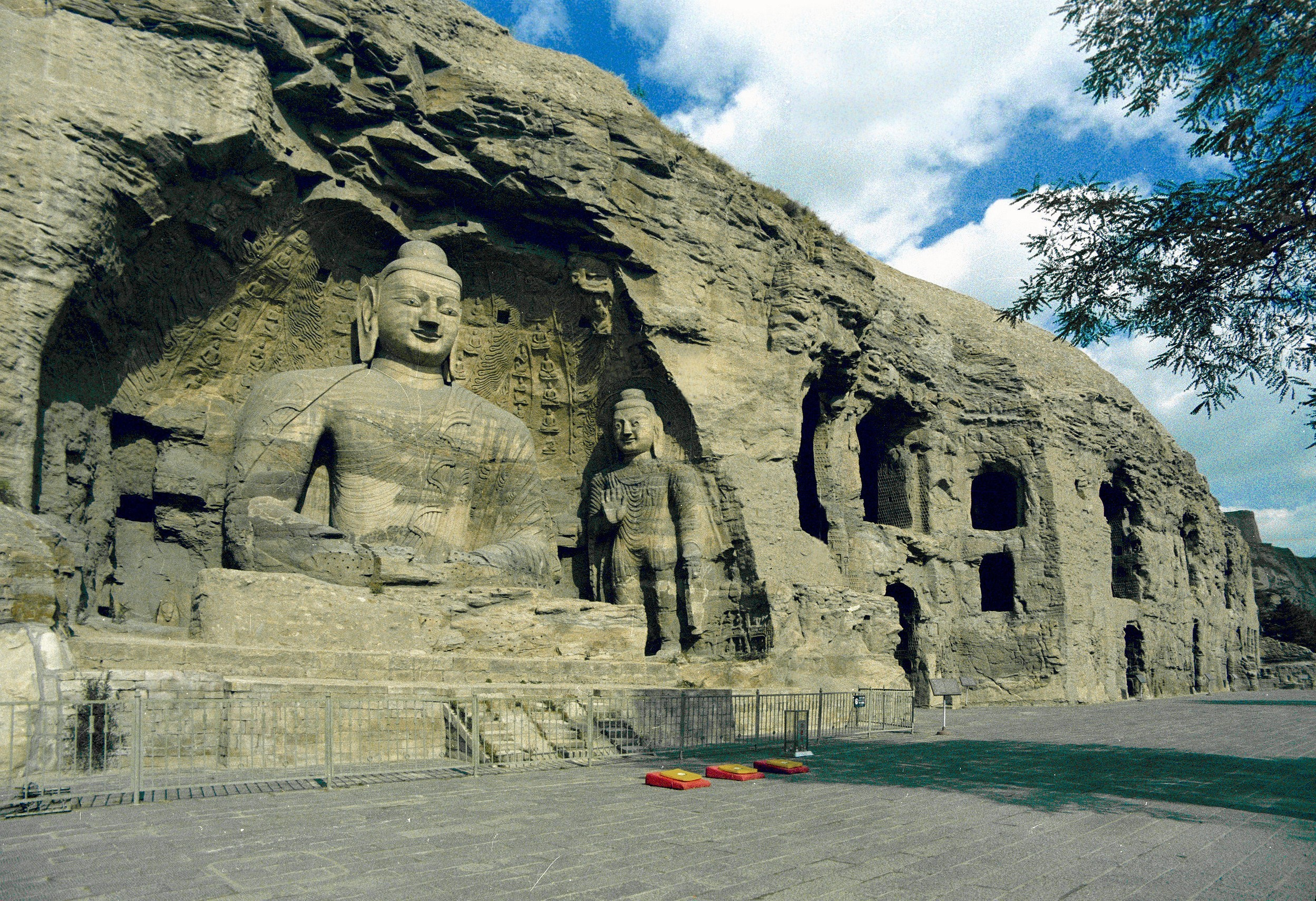 Yungang Grottos